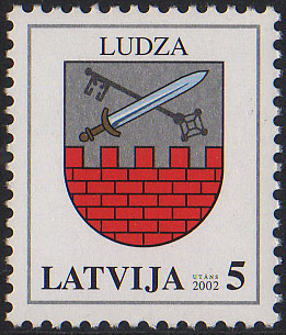 Latvian postage stamp definitive depicting the Ludza town coat of arms.